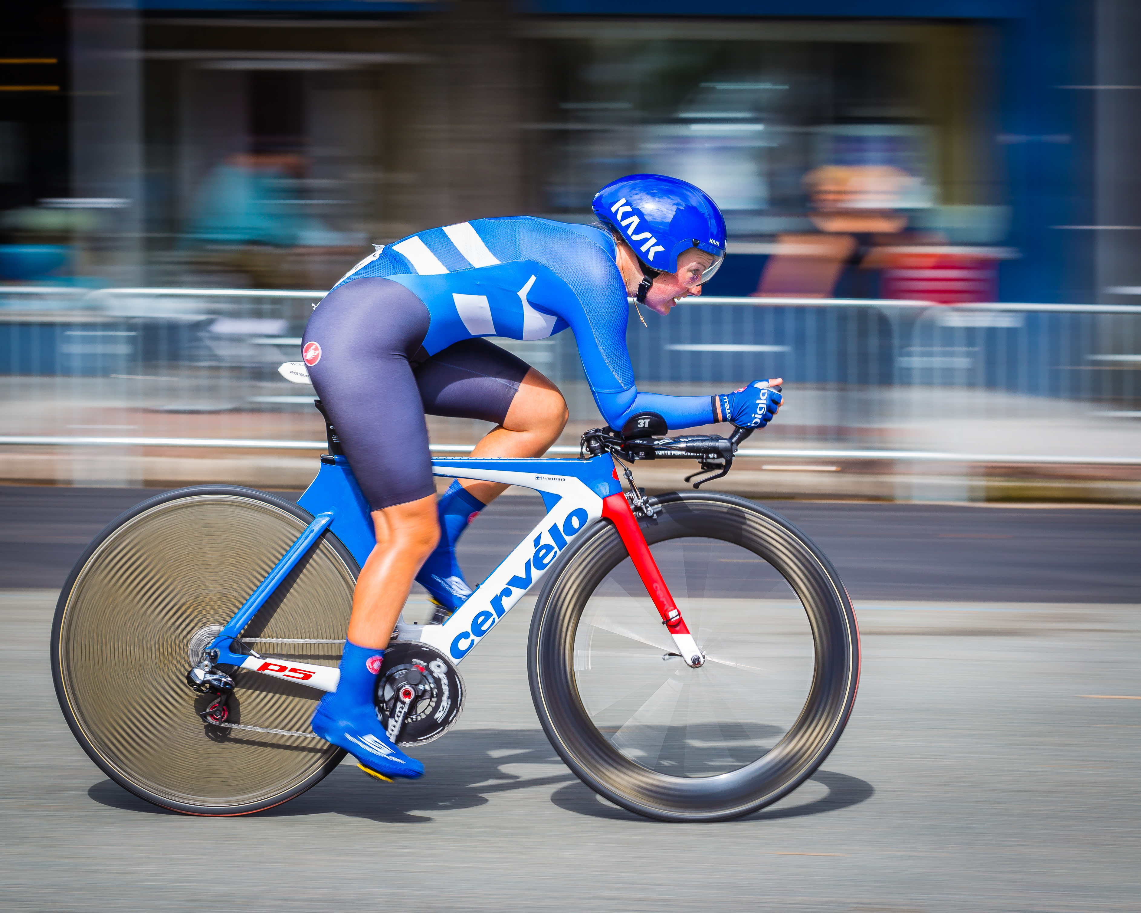 UCI Road World Championships 2015, Richmond, VA #UCI2015 2015 UCI Road World Championships, in Richmond, United States